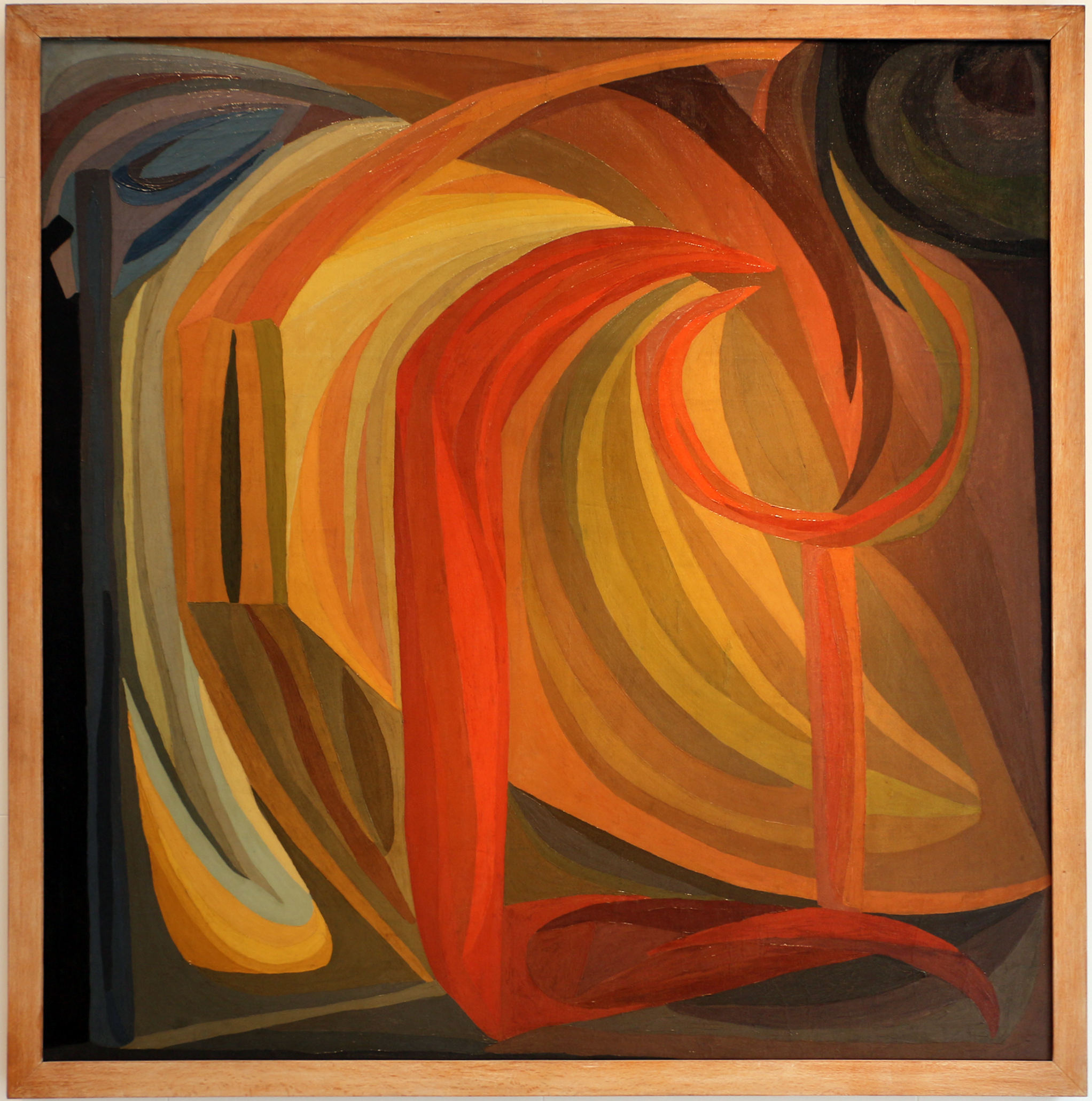 Paintings in the Musée d'Art Moderne de la Ville de Paris